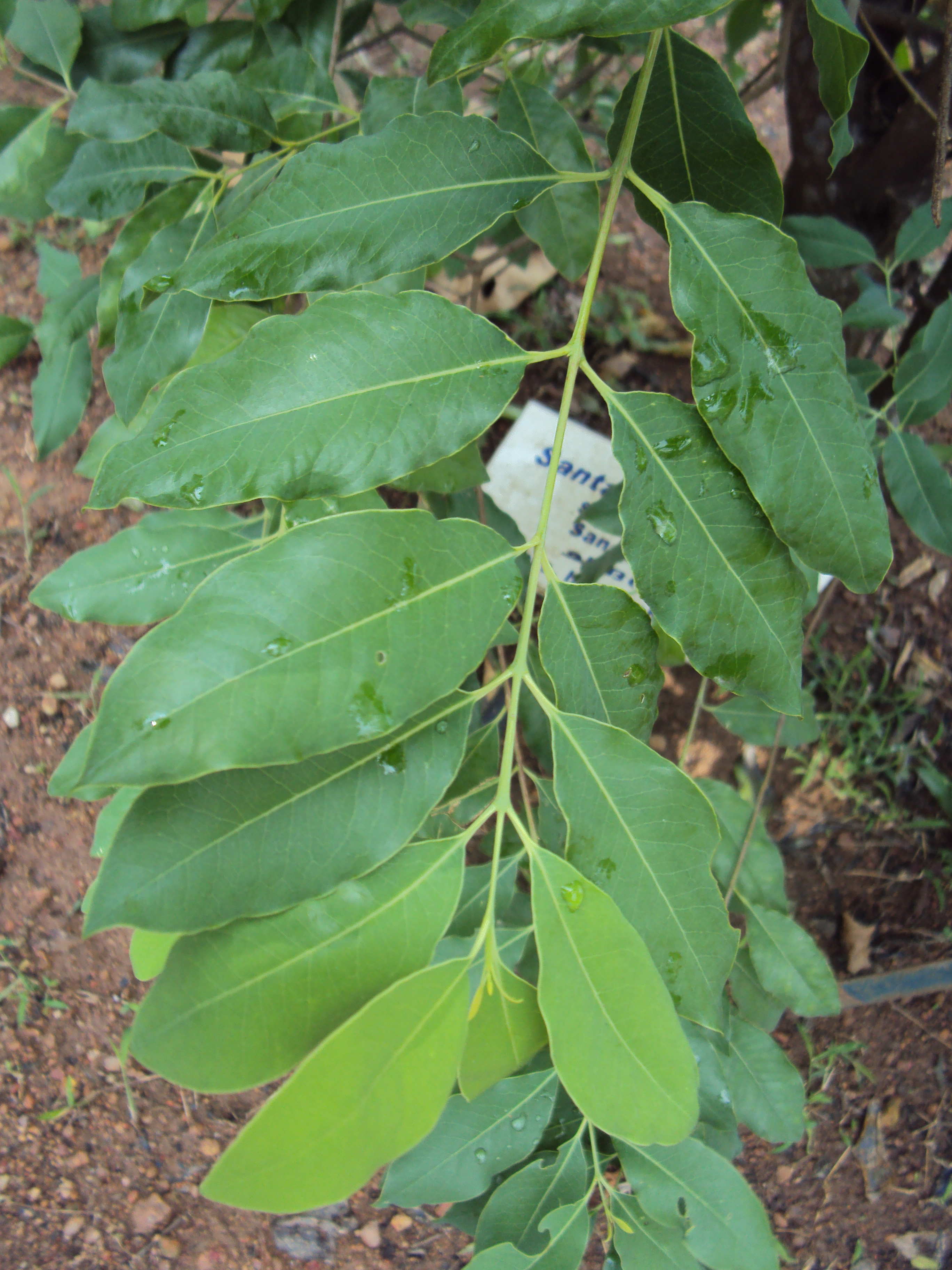 ചന്ദനം . Taken from Botanical garden of Kariyavattam University Campus, Trivandrum.